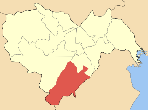 Locator map of Makedonidos municipality (Δήμος Μακεδονίδος) at Imathias perfecture, Greece.